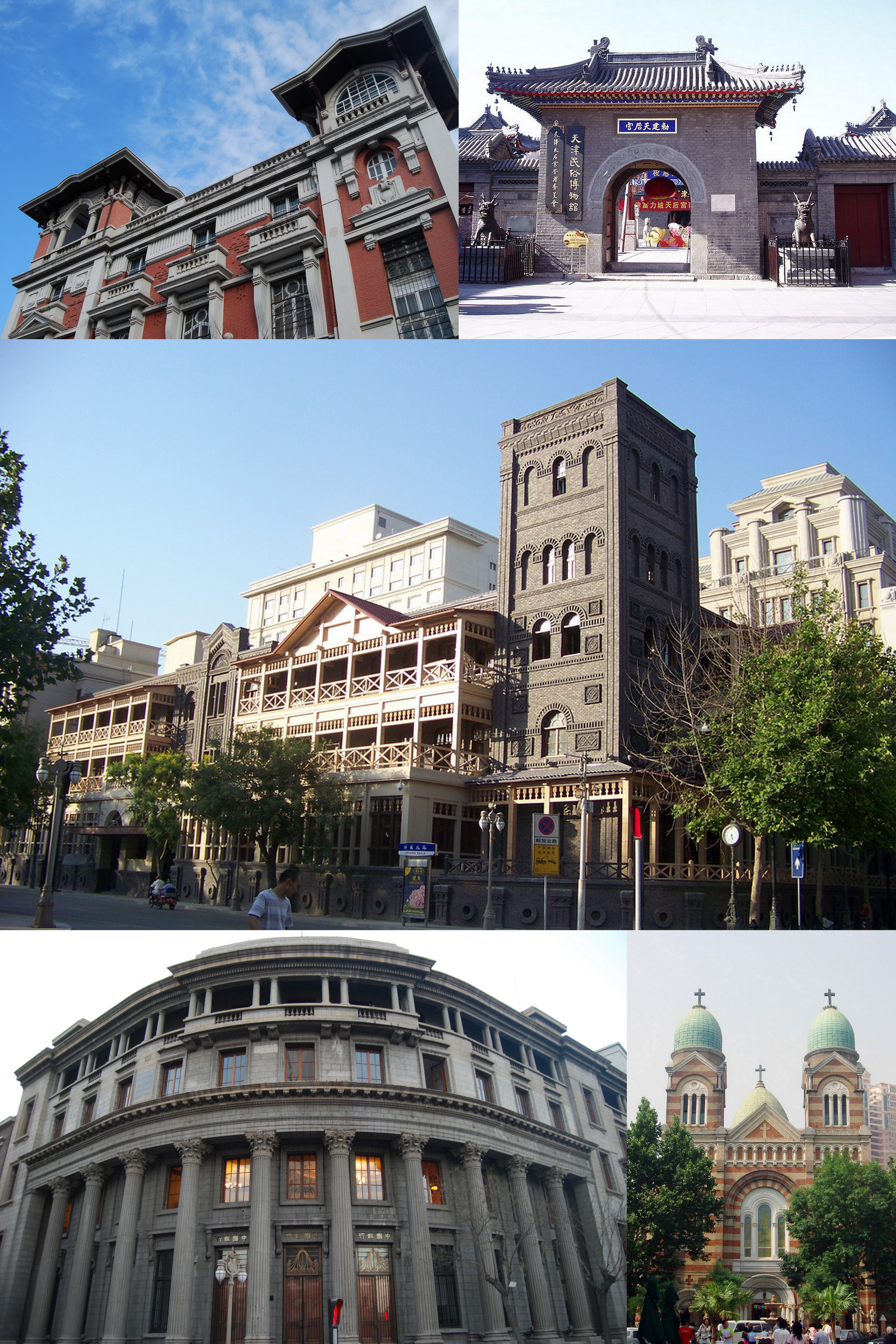 Montage image of Historical and Stylistic Architecture of Tianjin 中文（中国大陆）: 天津市历史风貌建筑蒙太奇拼图